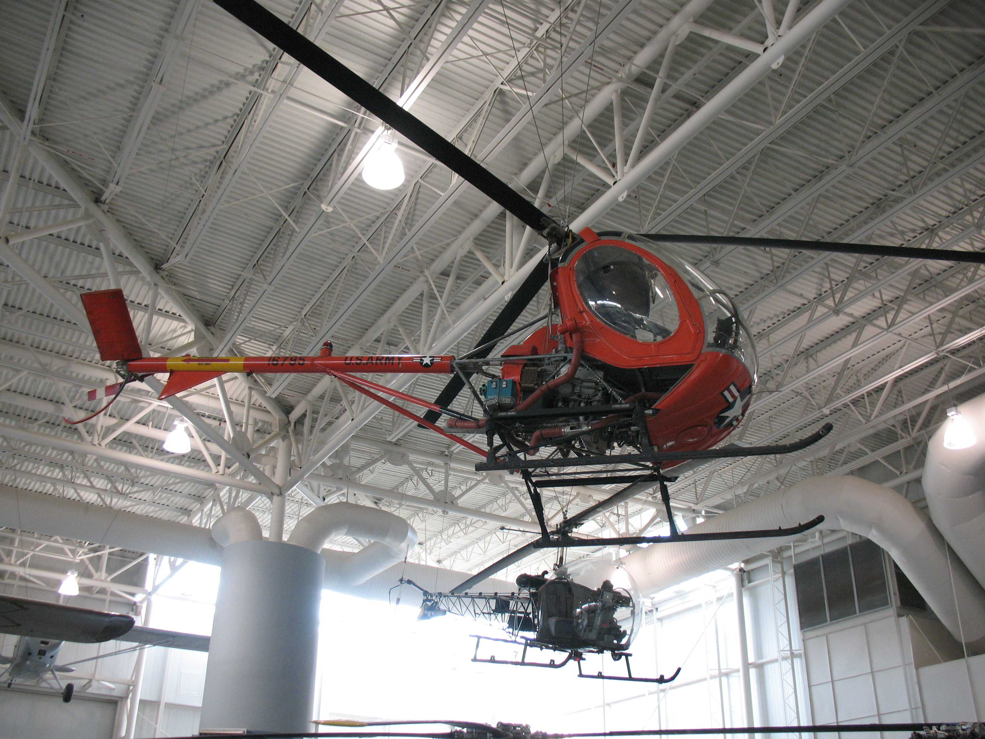 "The Hughes model 269A-1 was original designated the HO-2, and later the H-42. As the TH-55A it was selected by the U.S. Army for use as it's primary helicopter trainer in mid-1964. It replaced the Hiller H-23B trainer. It was used to train pilots until about 1984. The TH-55A was powered by a Lycoming 180 hp HIO-360-B1A engine."